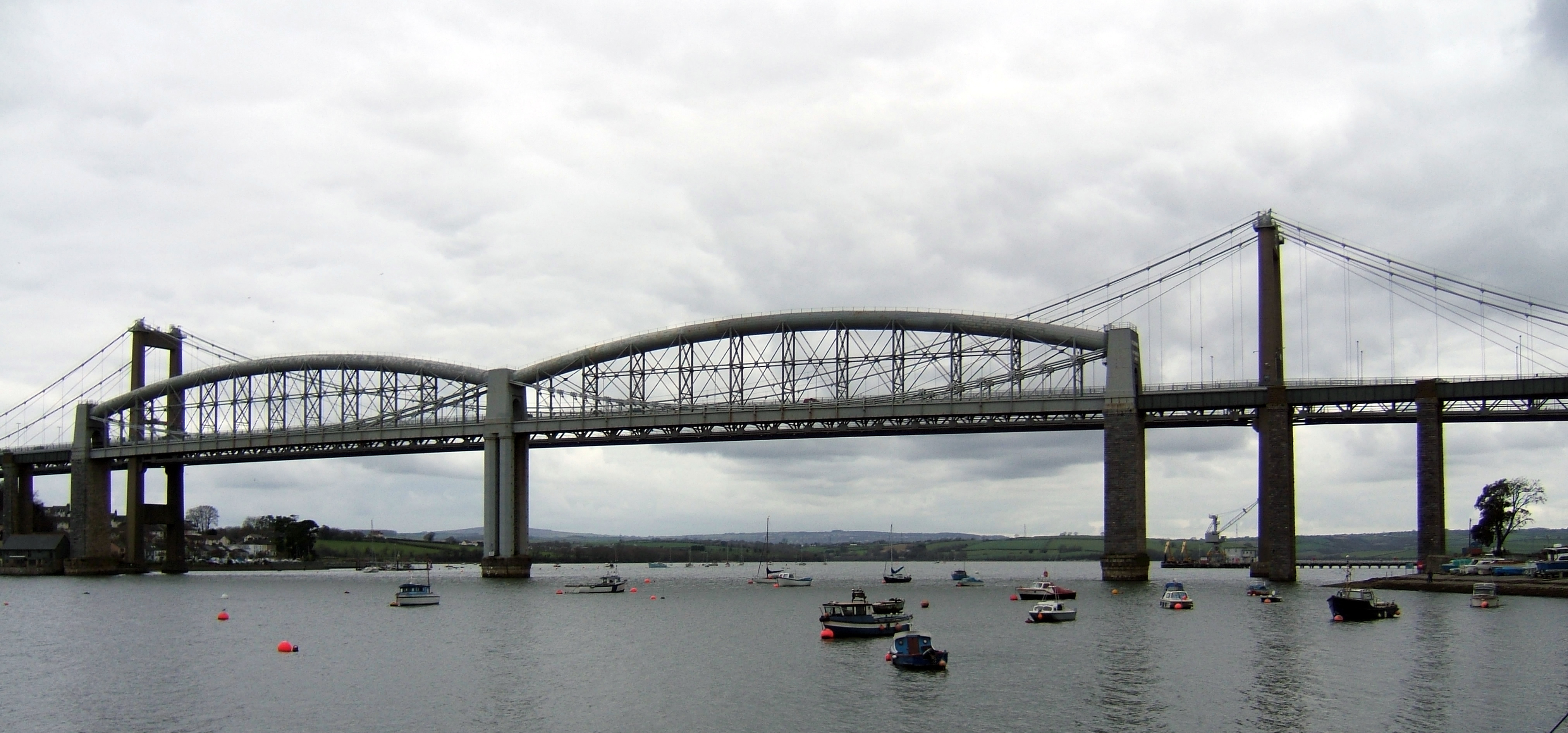 The Royal Albert Bridge (closest) and Tamar Bridge (behind) connects Cornwall to Devon and the rest of the United Kingdom.